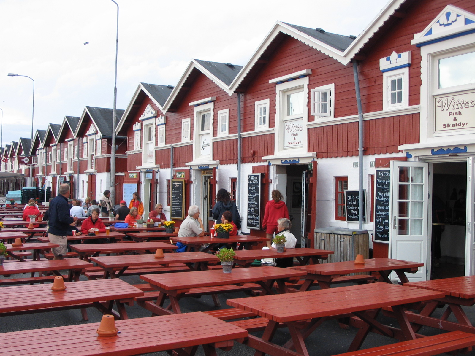 Warehouses in Danish town of Skagen